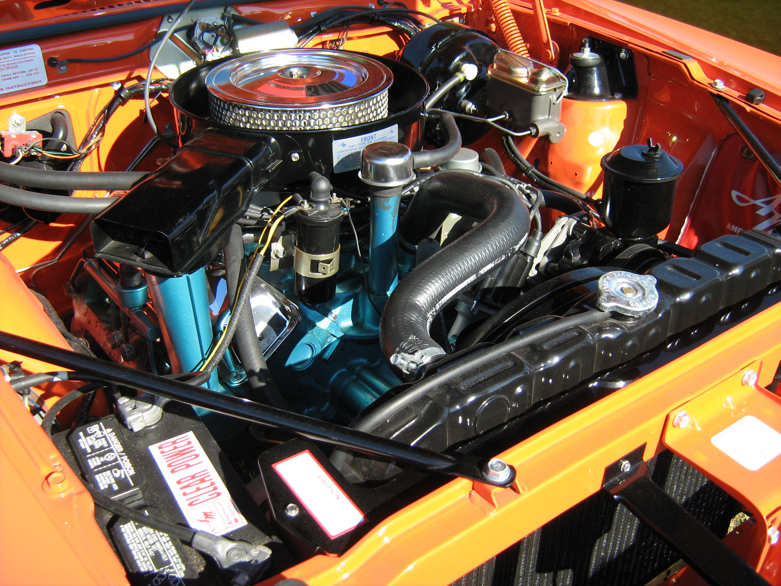 1970 AMX by American Motors Corporation (AMC) two-seat sports GT coupe with the 390 Go-Package. The 6.4 L V8 engine produces 325 horsepower (242 kW). This muscle car is finished in "Big Bad Orange" (paint code P-3).